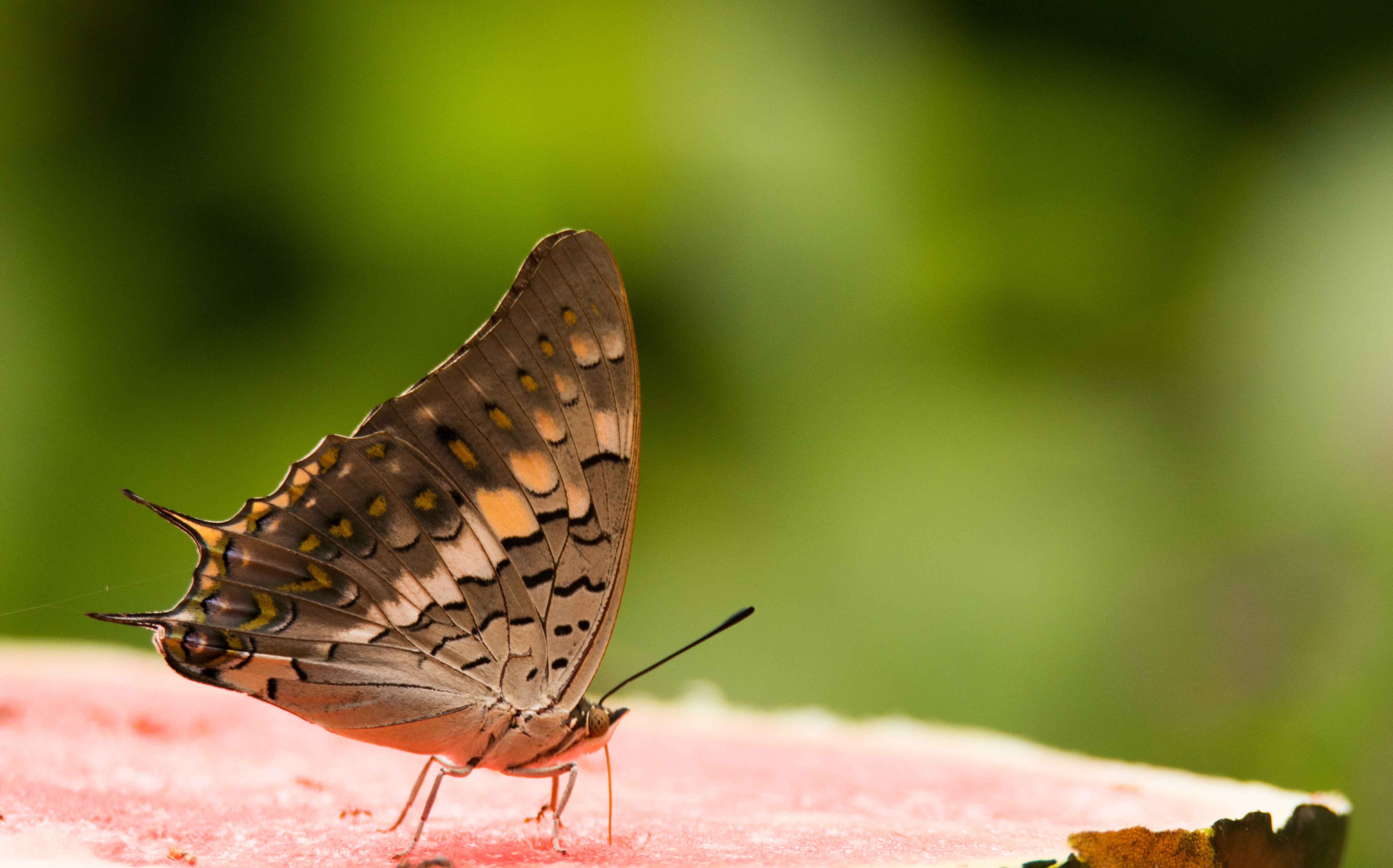 Black rajah Butterfly perching on a fruit